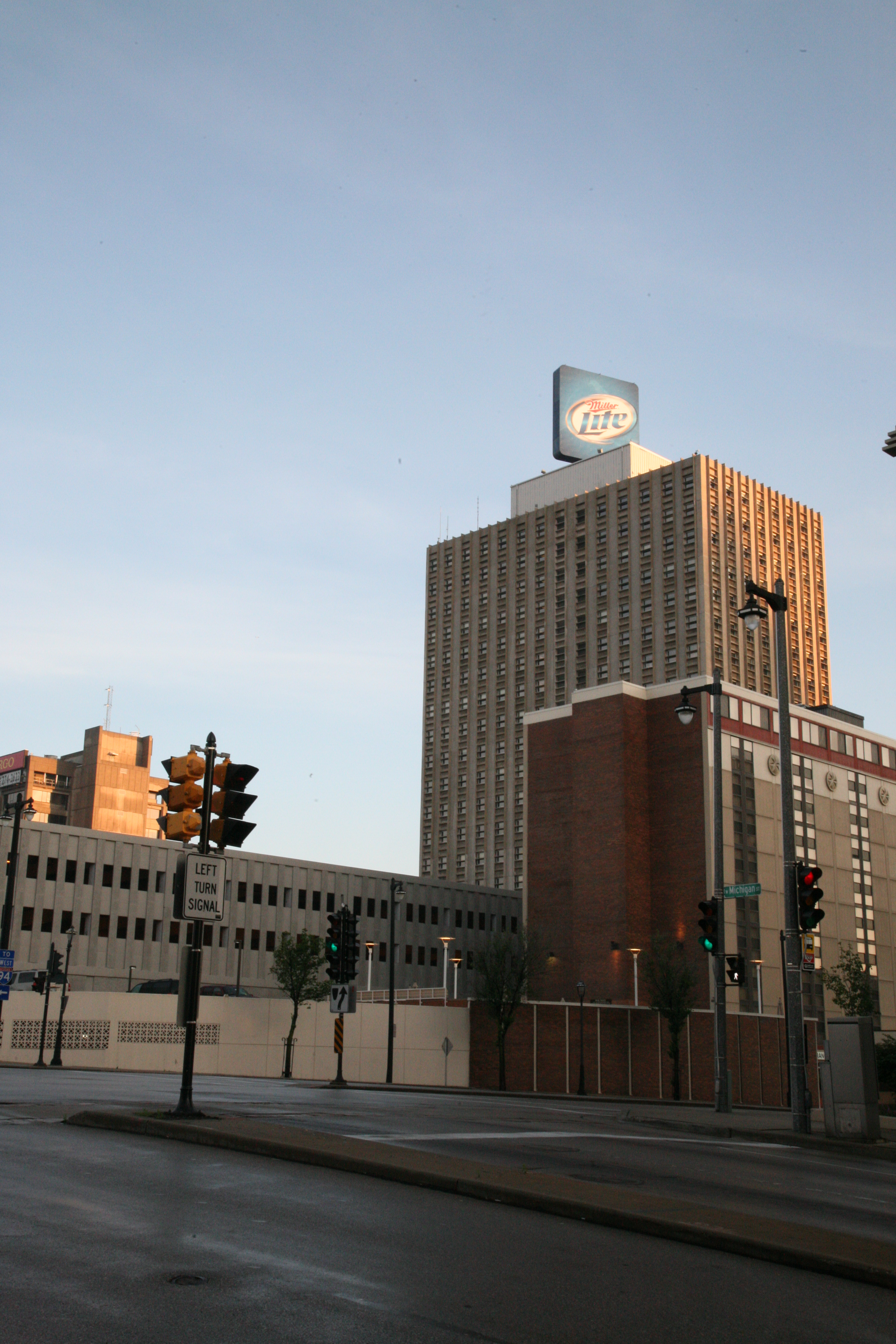 633 Building 633 W. Wisconsin Ave. Built: 1962 This was originally the headquarters for the Clark Oil and Refining Company. The 20 story building now houses offices and a parking deck. It is made of panels of marble aggregate.